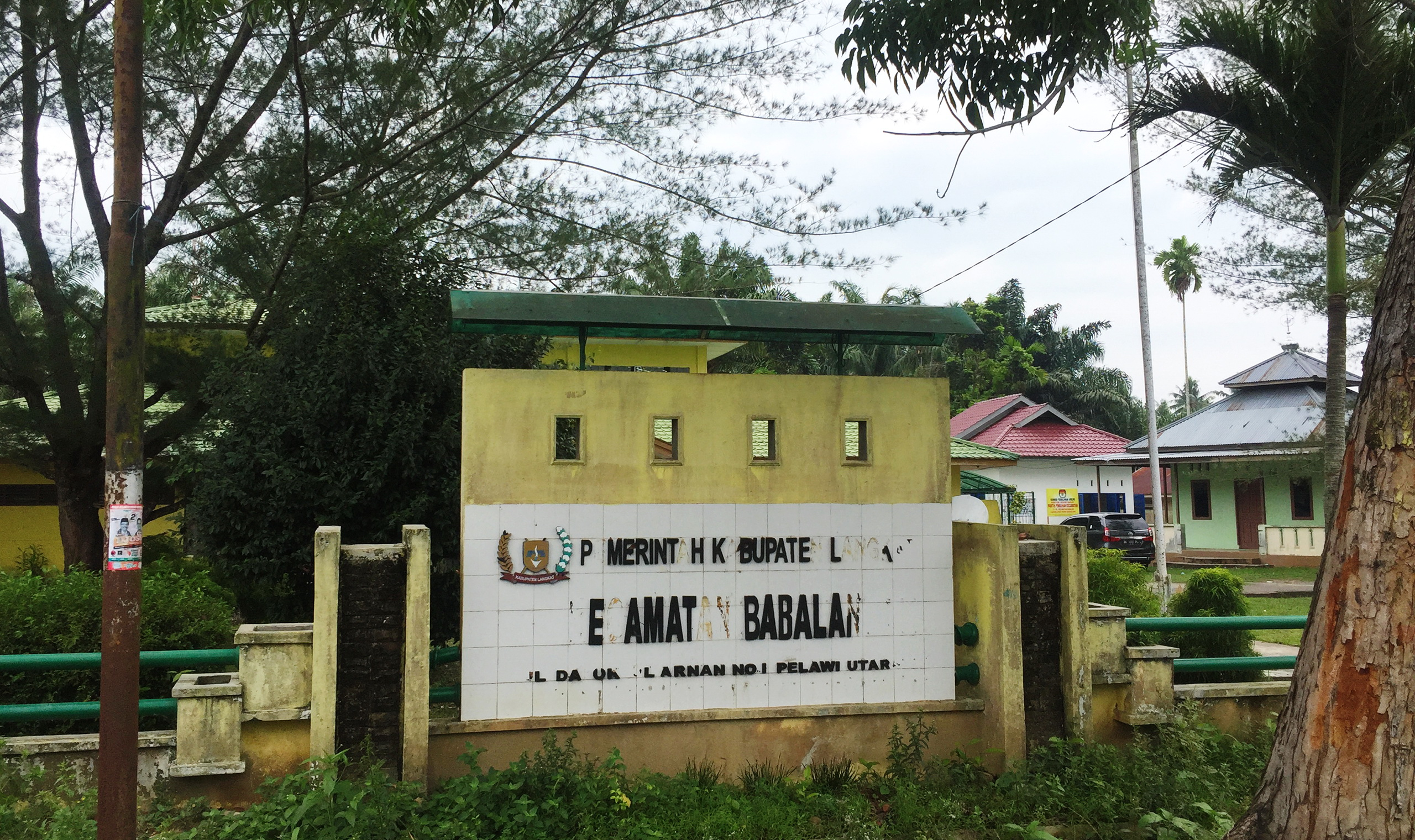 Office of Babalan, Langkat, North Sumatra, Indonesia.